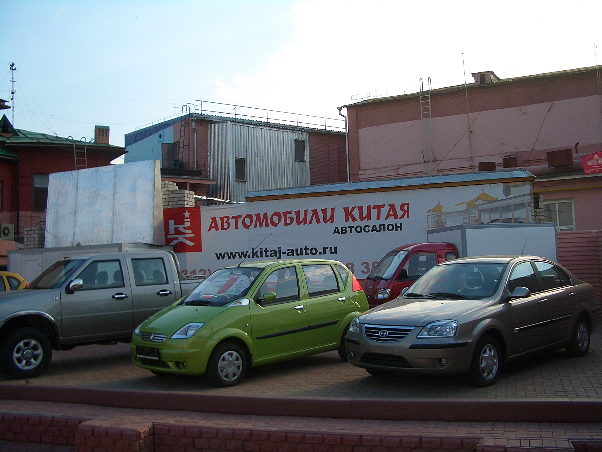 China-made cars on a car dealer's lot in Nizhny Novgorod's Kanavinsky District